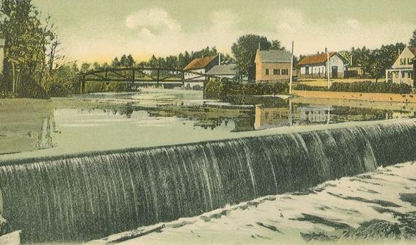 Contoocook River, Bennington, NH; from a 1905 postcard.